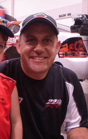 Photo of Scott Steckly taken in the pit area at the 2011 Toronto Indy. He was nice enough to come and pose for photos after the race!